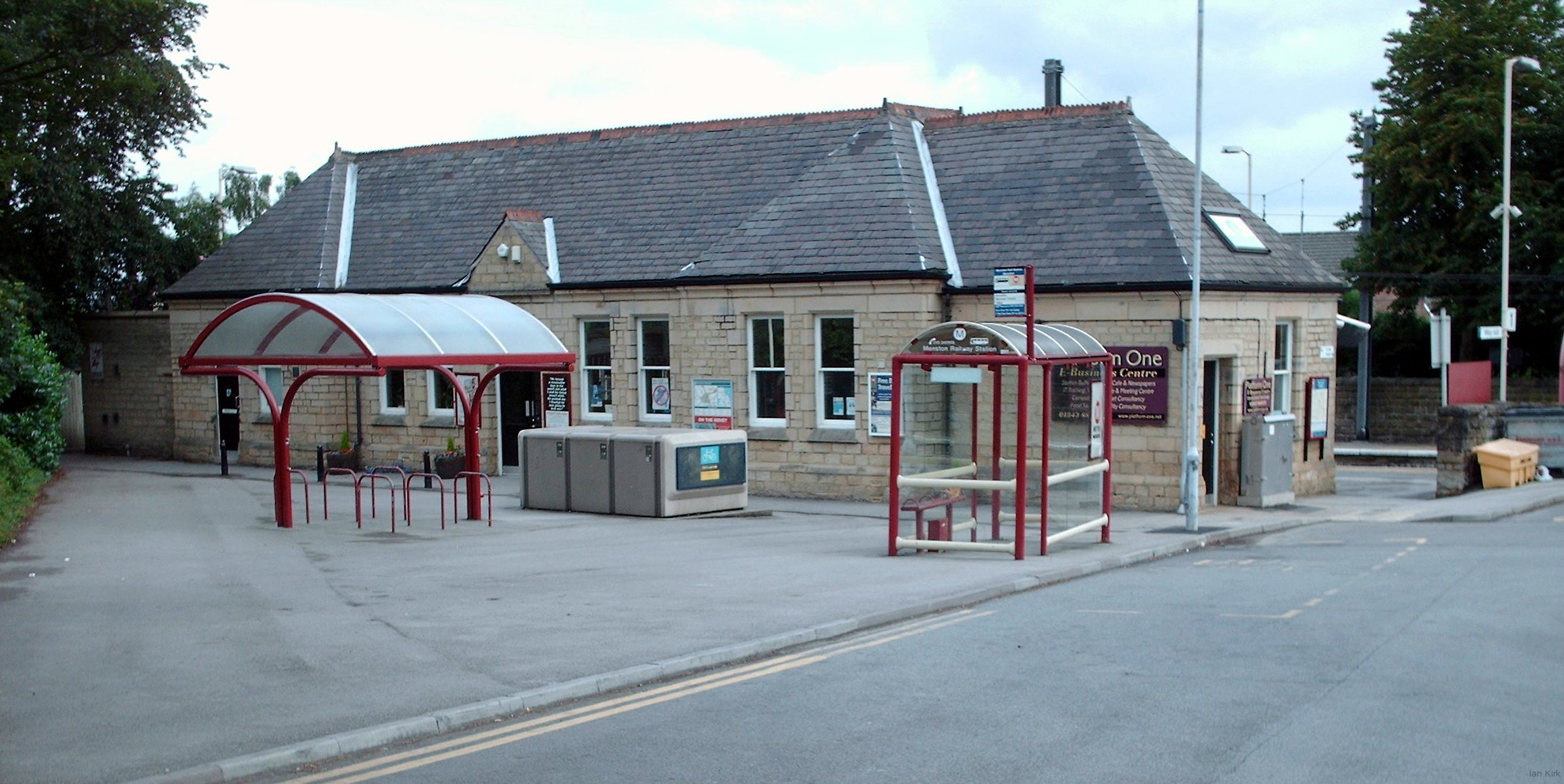 Menston railway station, West Yorkshire, England.